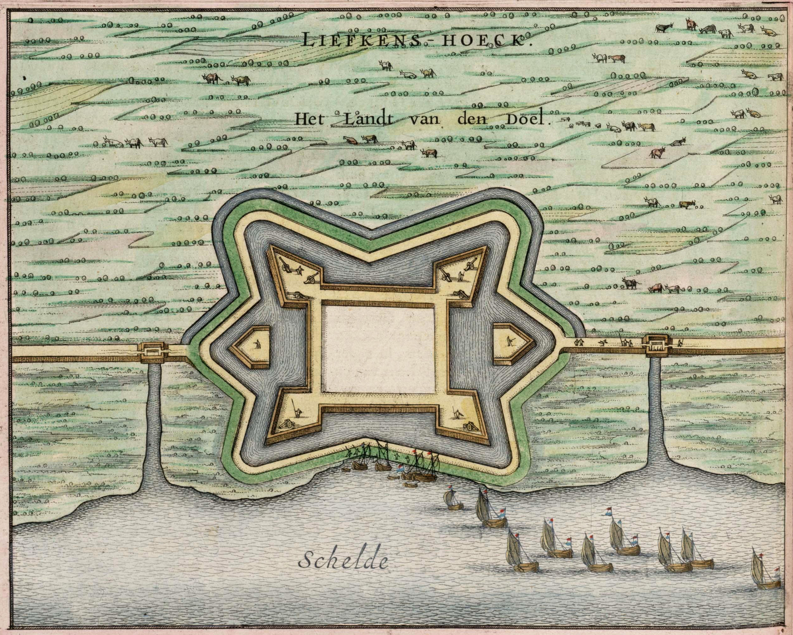 Fort Liefkenshoek, near Kallo.